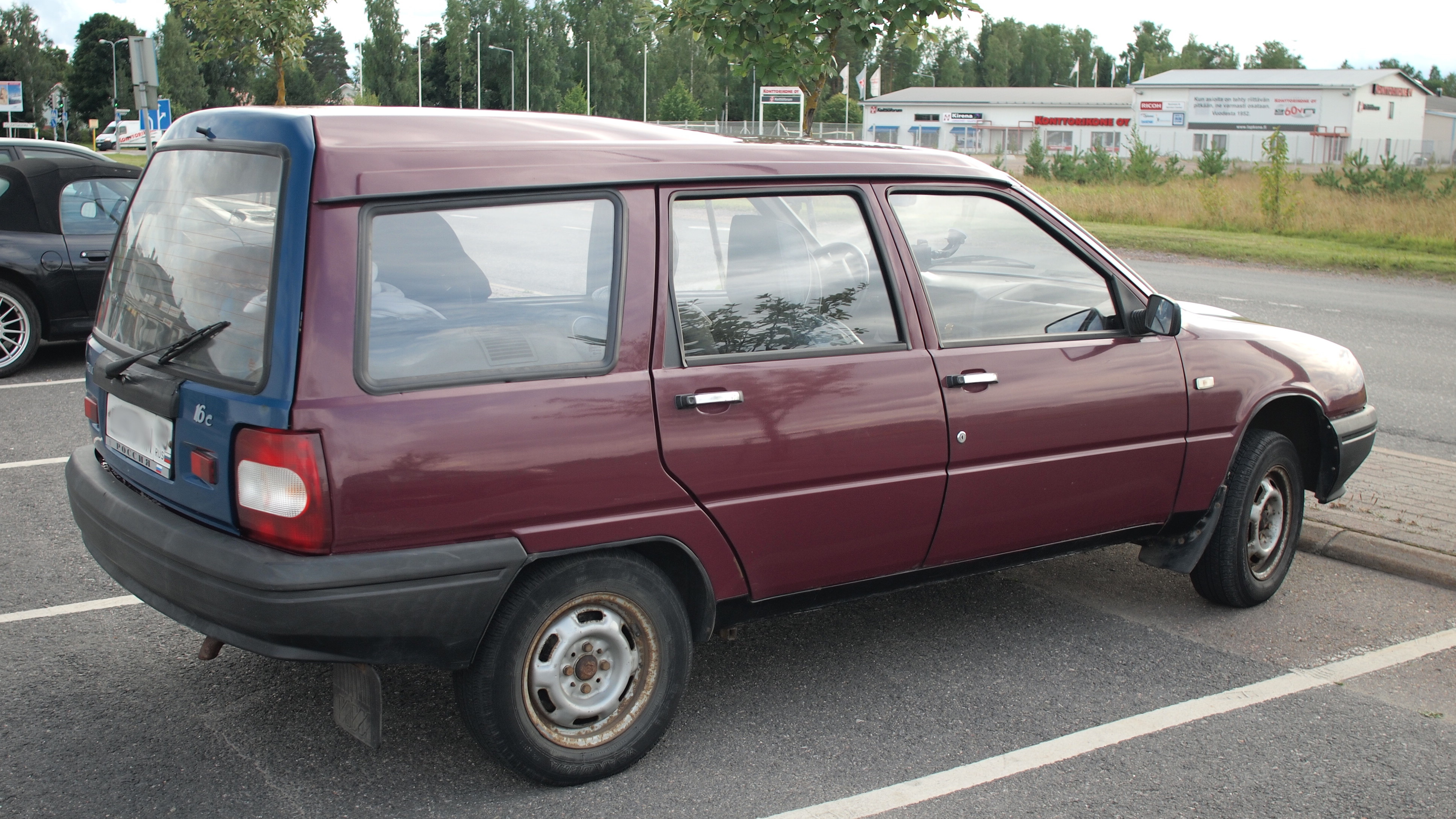 IZH Fabula (ИЖ 21261)